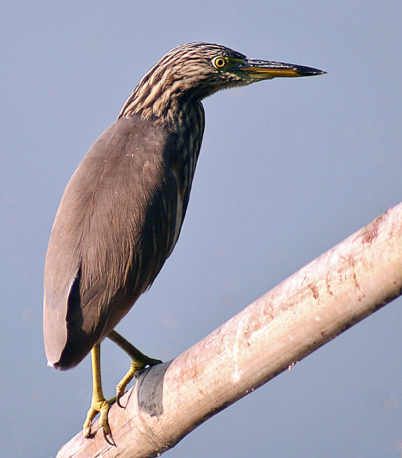 Indian Pond Heron Ardeola grayii in Kolkata, West Bengal, India.